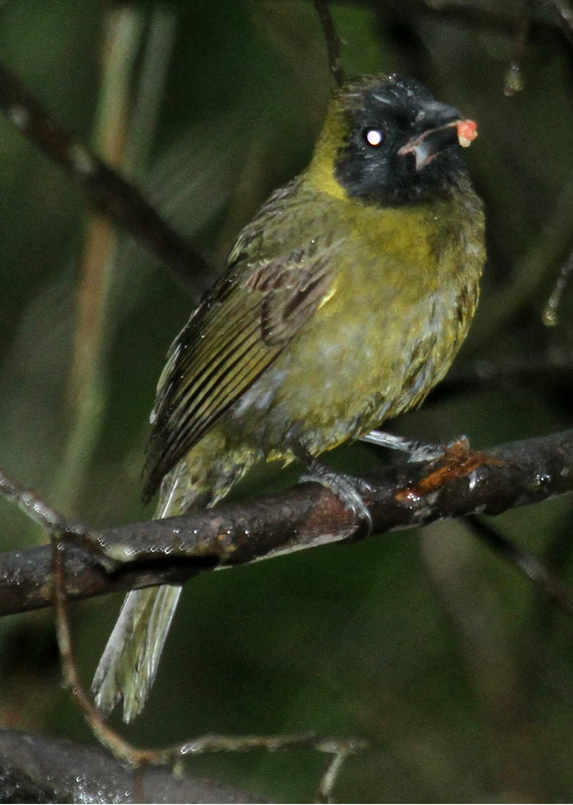 female / flash photo / Sabal Palm Sanctuary - Texas